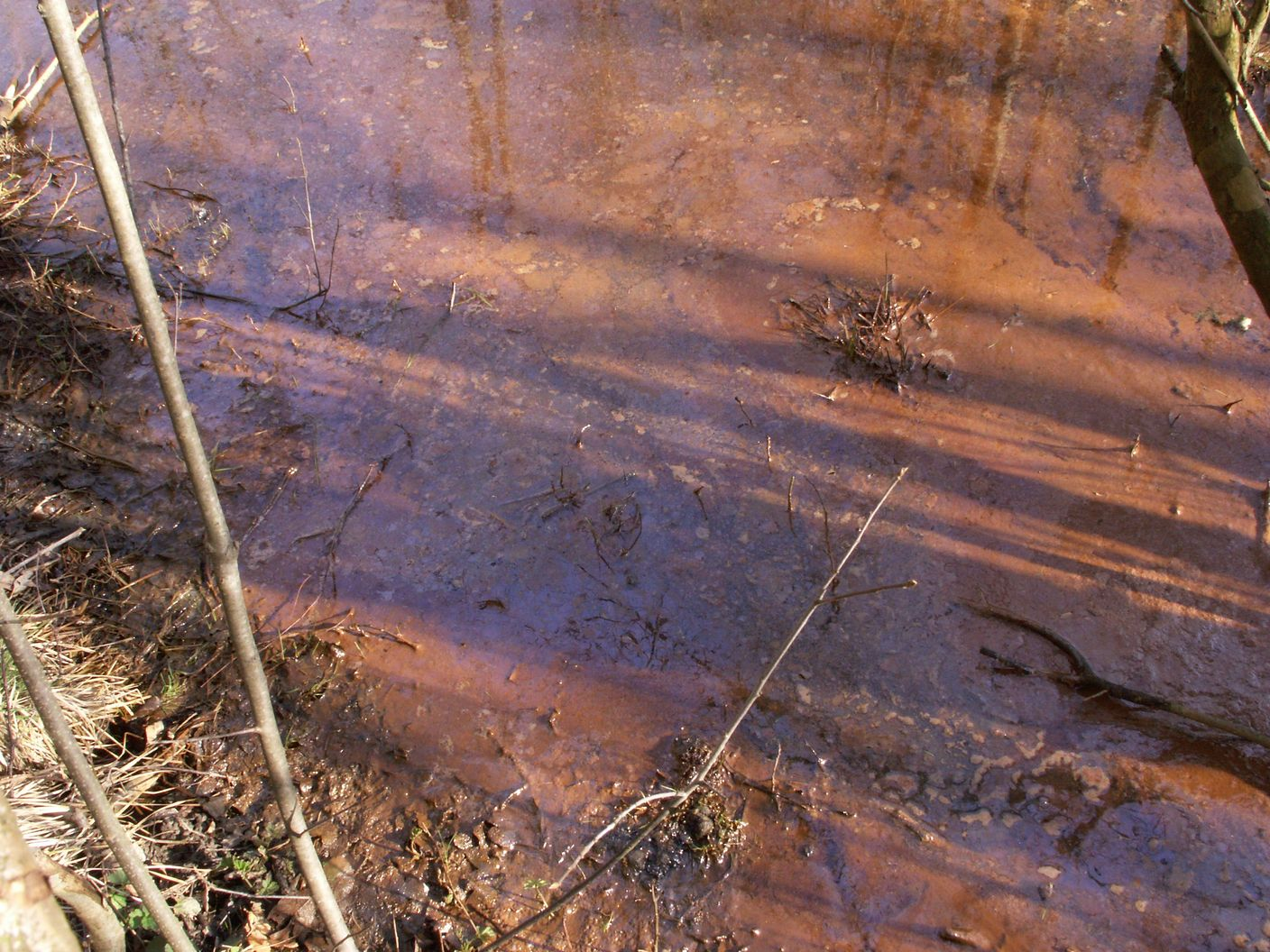 ditch with iron containing water beside a bog, Lithuania